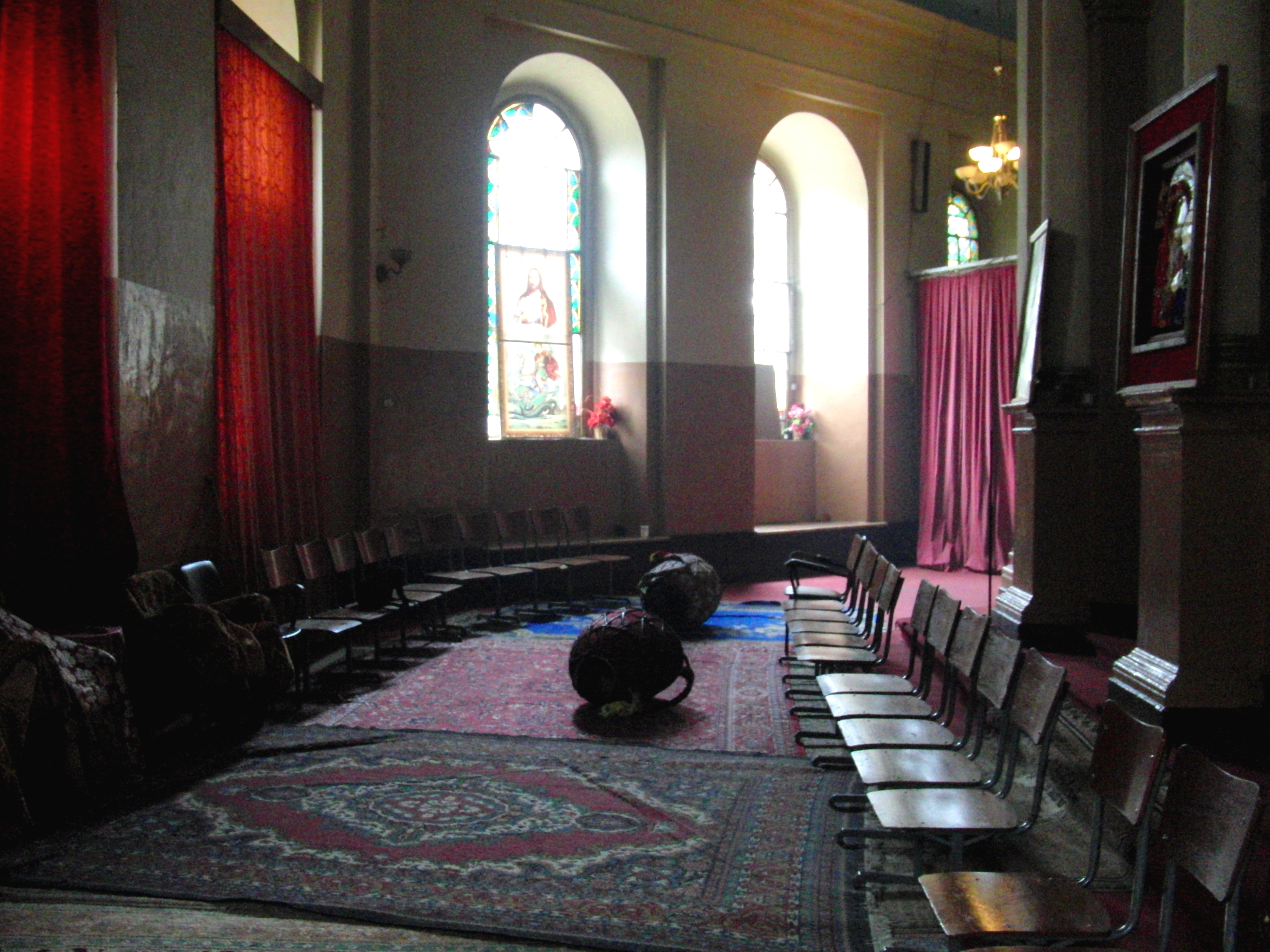 Carpets and ritual drums in the outer circle of the St. Giyorgis church in Addis Abeba, Ethiopia.